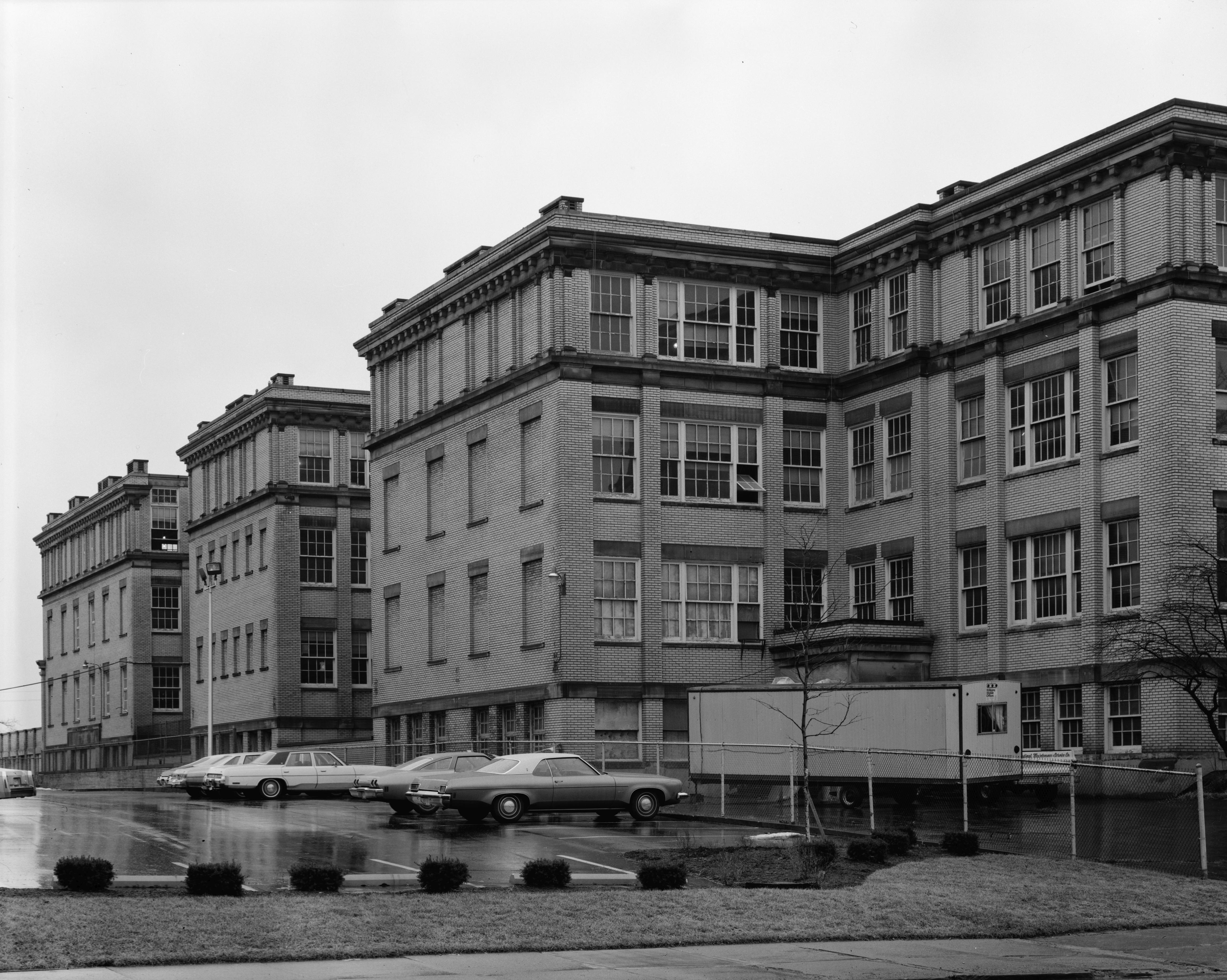 Front of the Old McKinley High School, located at 800 N. Market Street in Canton, Ohio, United States. Built in 1916, it is listed on the National Register of Historic Places.